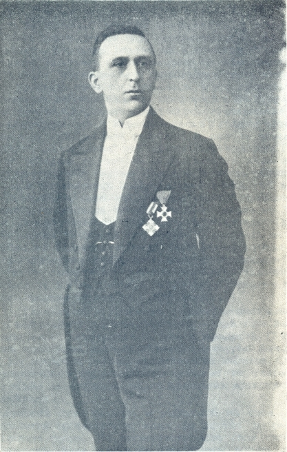 Bulgarian opera vocalist Tsvetan Karolev (1890-1960) in a jubilee brochure for his 25-th anniversary on stage